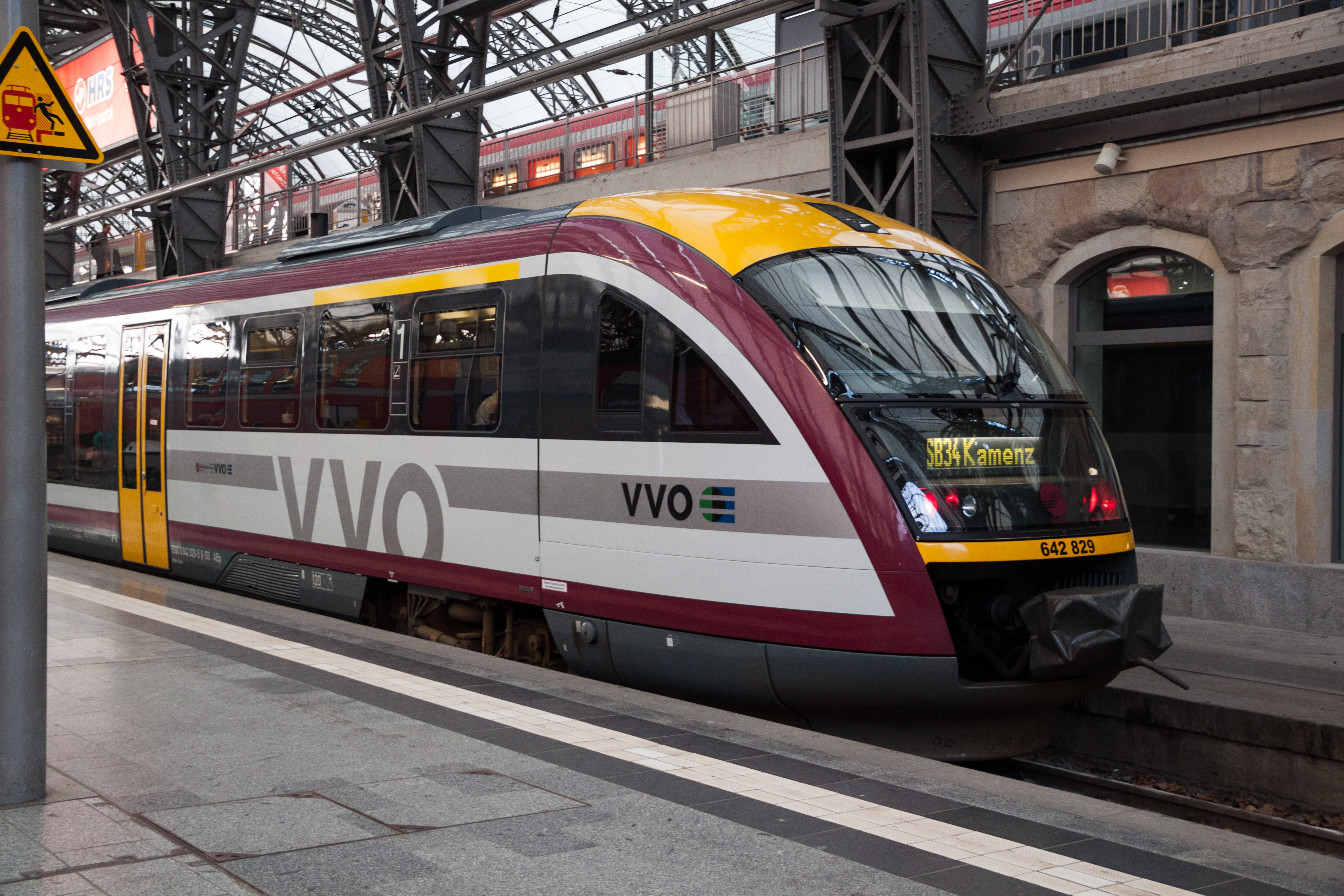 A regional train of Städtebahn Sachsen at the main railway station of Dresden